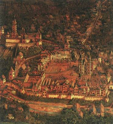 A view to Kremnica with the castle (top left) and mint (bottom left)